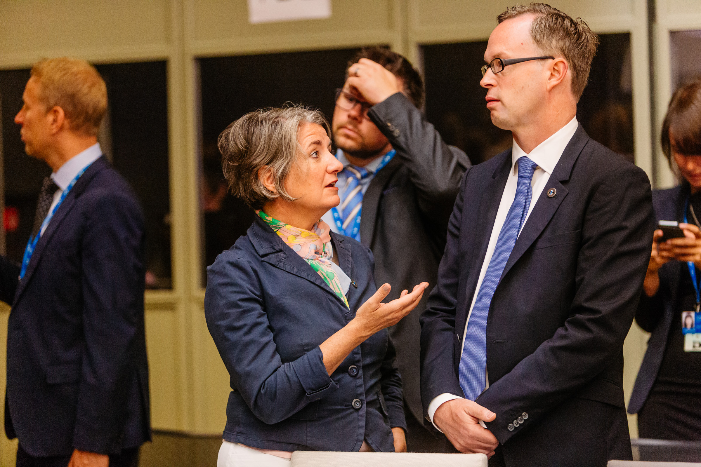 (l-r) Karin Olofsdotter, Director General, Ministry for Foreign Affairs, Sweden; Alf Karlsson, State Secretary to Peter Eriksson, Ministry of Enterprise and Innovation, Sweden Photo: Arno Mikkor (EU2017EE)